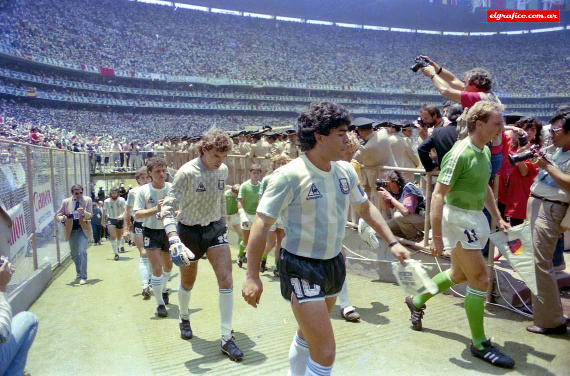 Argentina and West Germany entering to the field to play the final.